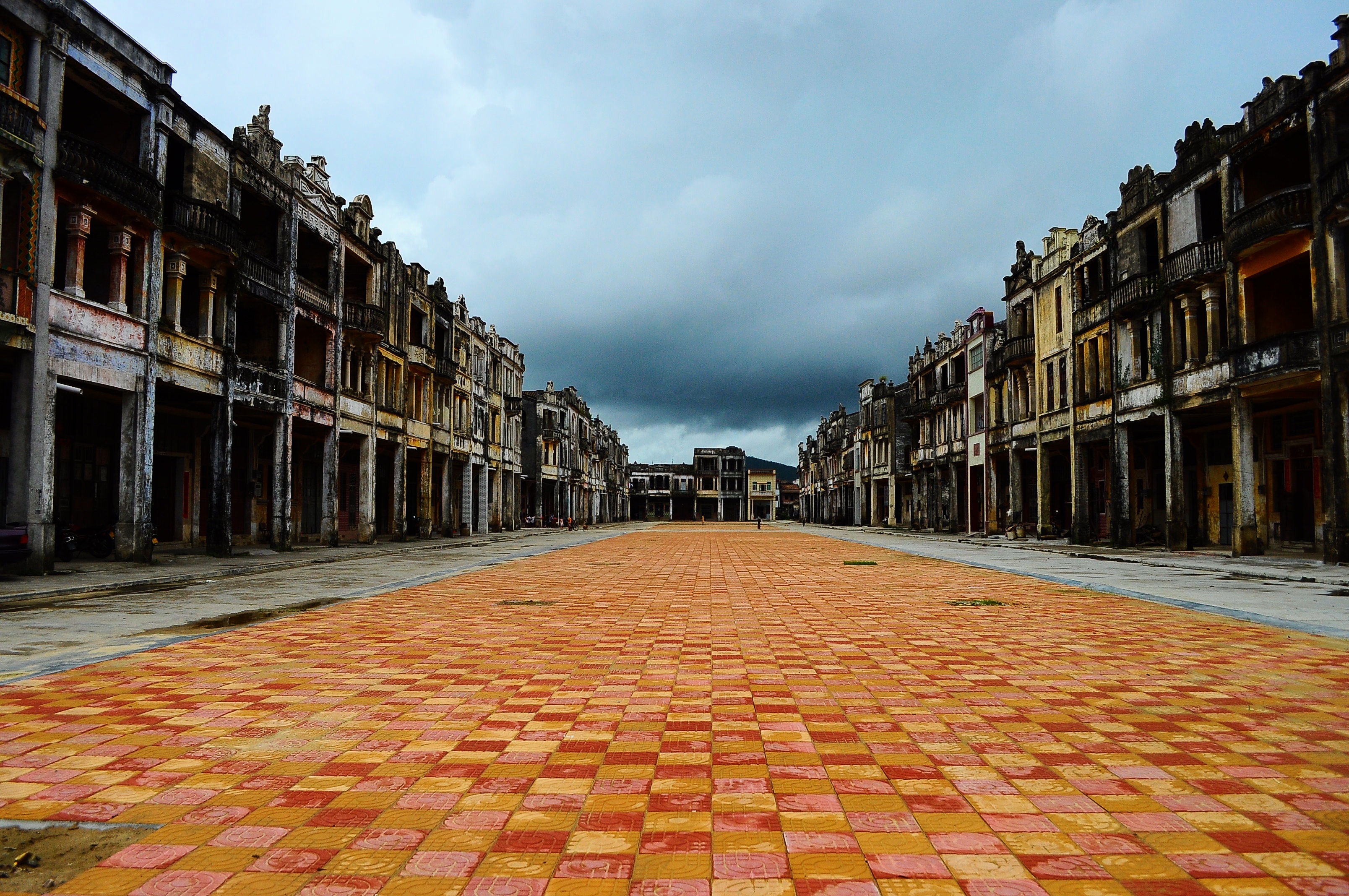 Mei Family Plaza, located in a village in Duanfen, China